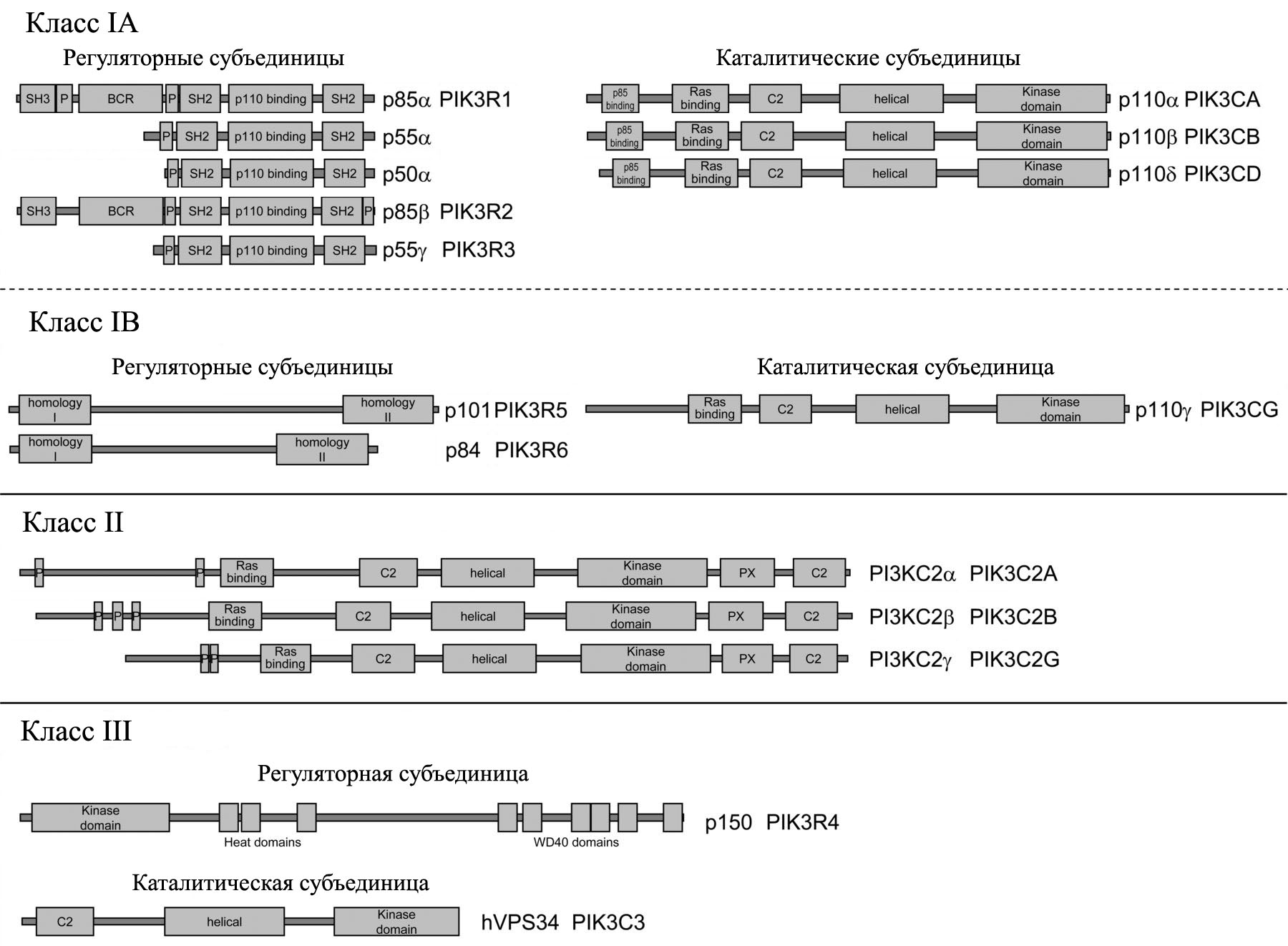 Структура белков PI3K